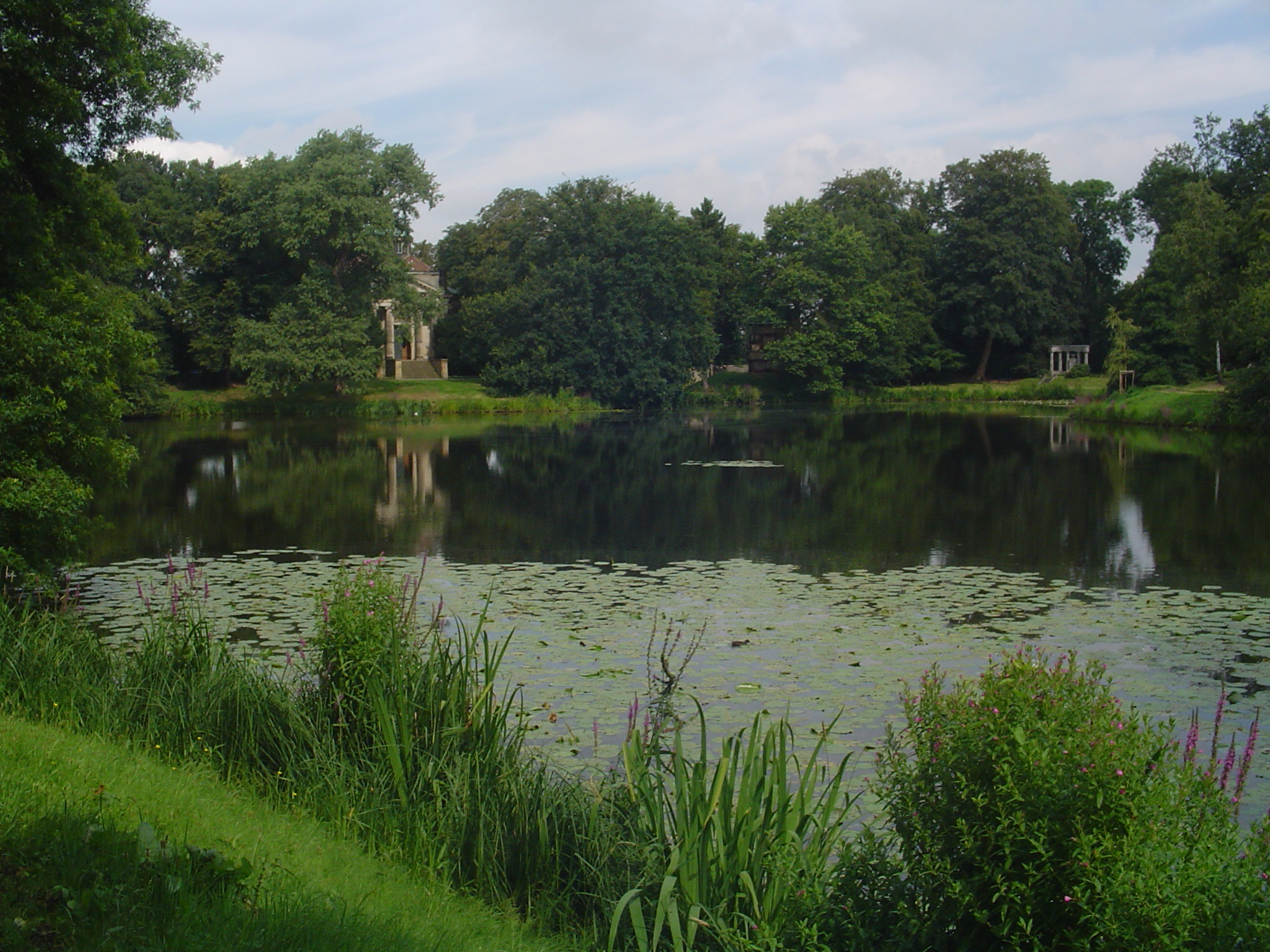 artifical lake at graveyard Riensberg in Bremen, Germany